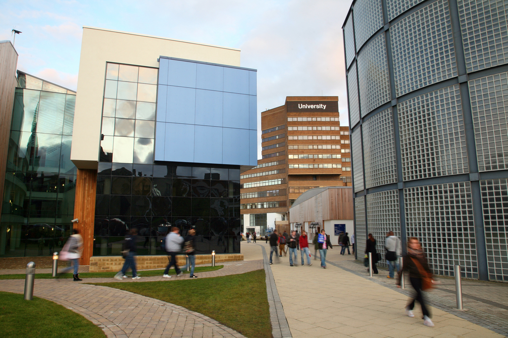 A view from the top end of Queensgate campus. Visible buildings are the Creative Arts Building (left), Harold Wilson Building (right) and the Central Services Building (background)